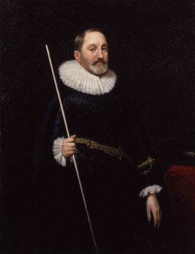 Sir Thomas Edmondes (1563?-1639)